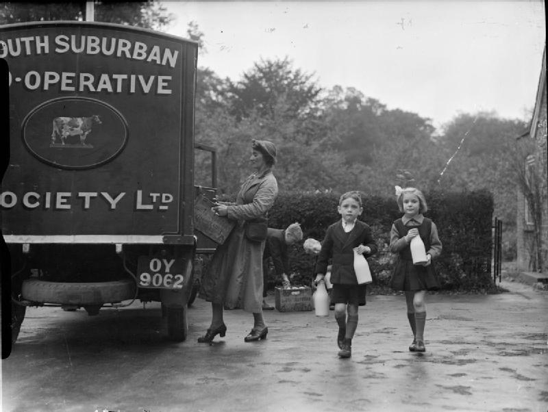 Chipstead Council School- Education and Communal Feeding, Chipstead, Surrey, 1942 A group of young children at Chipstead Council School help Mrs Harmer to bring the milk she has just delivered into the school building. Mrs Harmer has a son of her own at the school and delivers the milk each day.